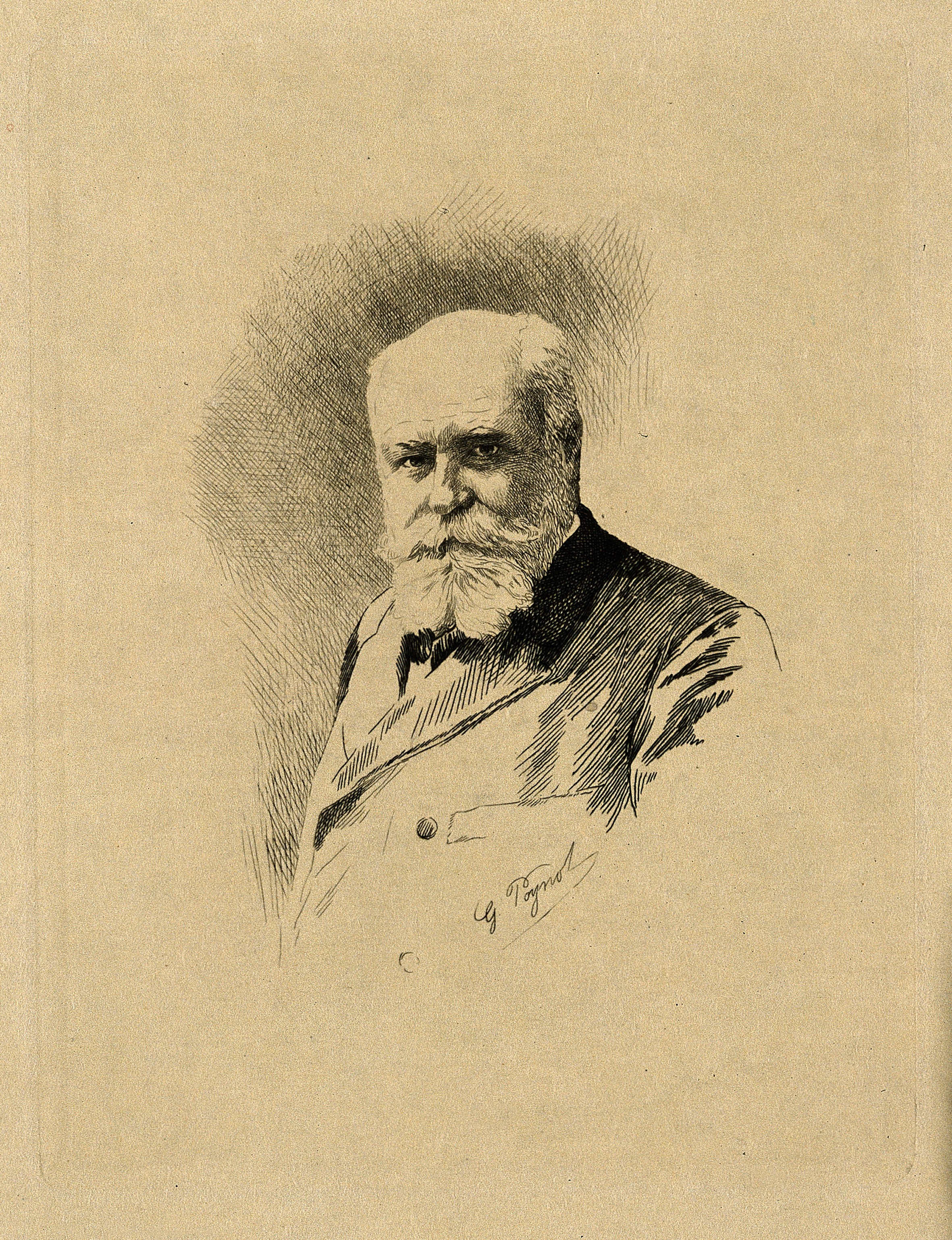 Jules Voisin. Etching by G. Poynot. Iconographic Collections Keywords: portrait prints; etchings; Jules Voisin